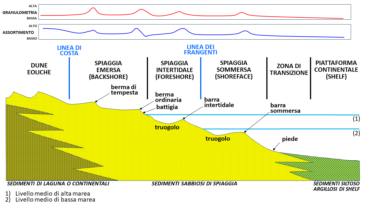 Ideal shoreline transversal profile. After Ricci Lucchi (1980), redrawn.